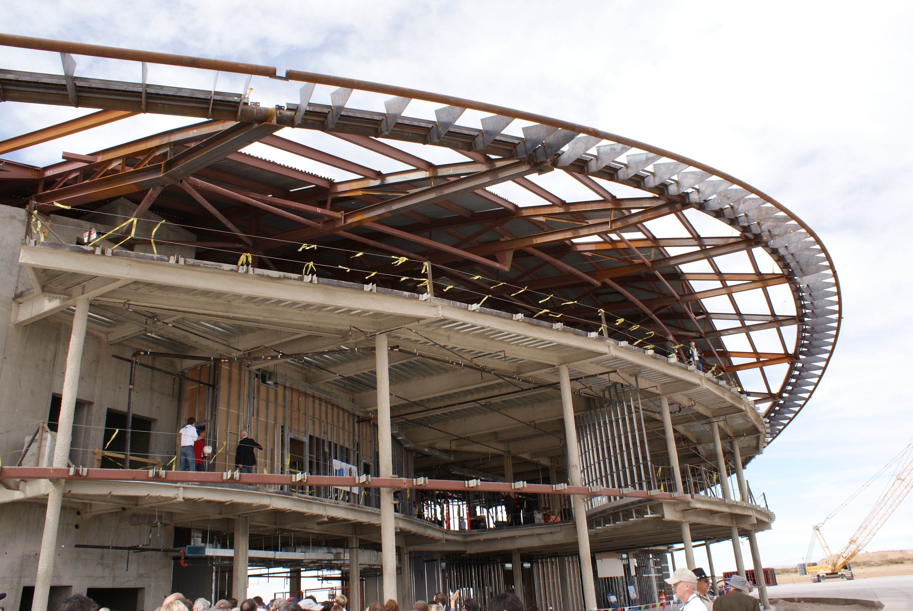 Closeup of construction of Terminal Hangar Facility at Spaceport America.